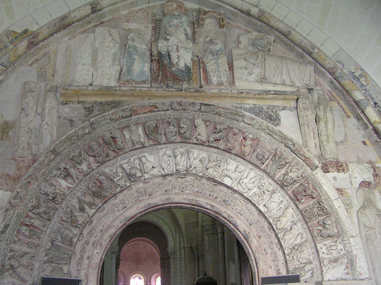 Castle of Loches, portal of the collegiate church Saint-Ours